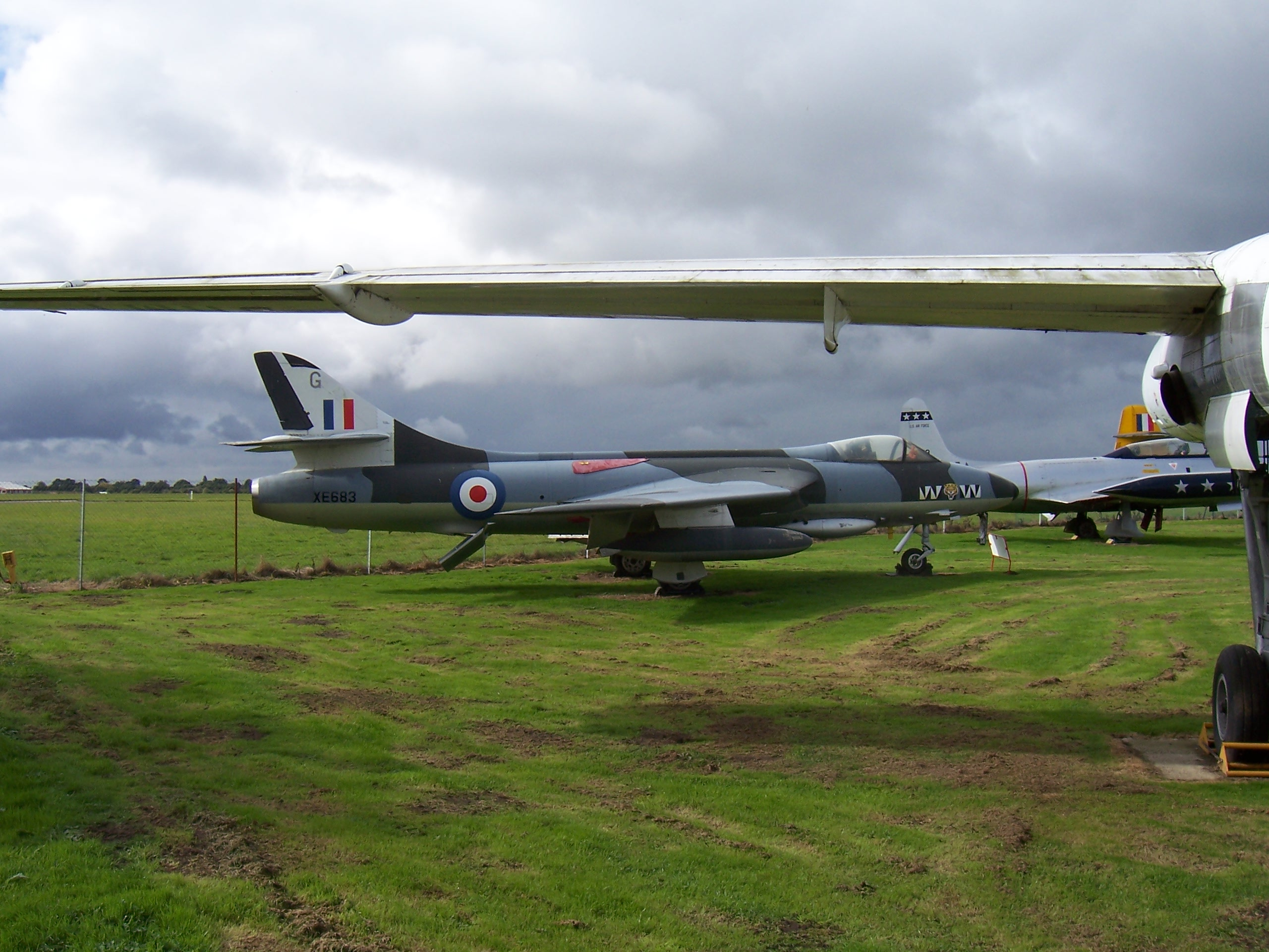 Hawker Hunter F51 (ex. Royal Danish Air Force E-409, painted to represent an aircraft of 74 Tiger Squadron Royal Air Force) preserved at the City of Norwich Aviation Museum